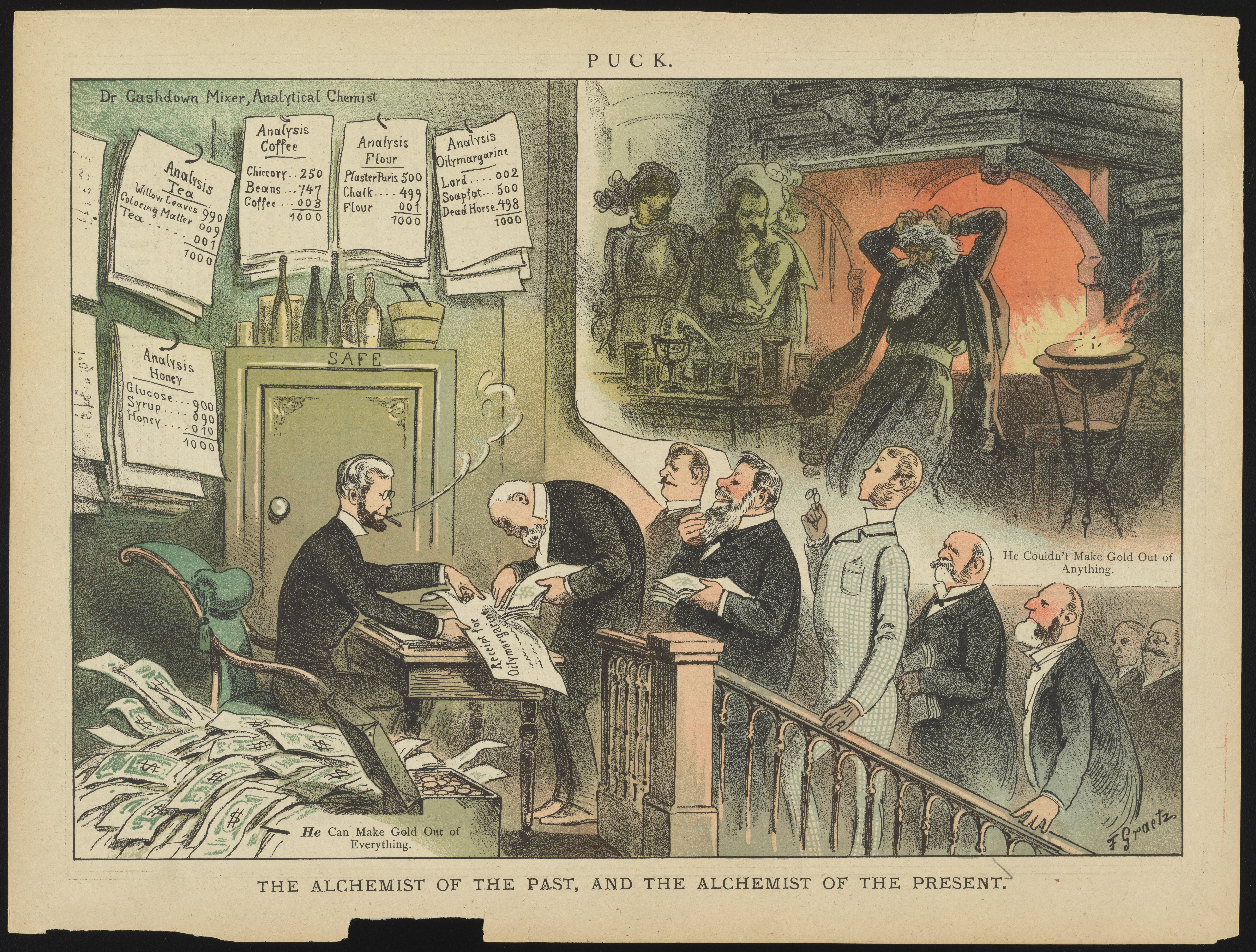 "The Alchemist of the Past, and the Alchemist of the Present" by Friedrich Graetz (1842-1912). The scene depicts a character named Dr. Cashdown Mixer, Analytical Chemist collecting payments for items such as "Analysis Tea," "Analysis Coffee," and Analysis Oilymargarine" from a line of gentleman. This cartoon was published in PUCK Magazine on April 2, 1884. The cartoonist Friedrich Graetz worked for PUCK magazine from 1882-1885.